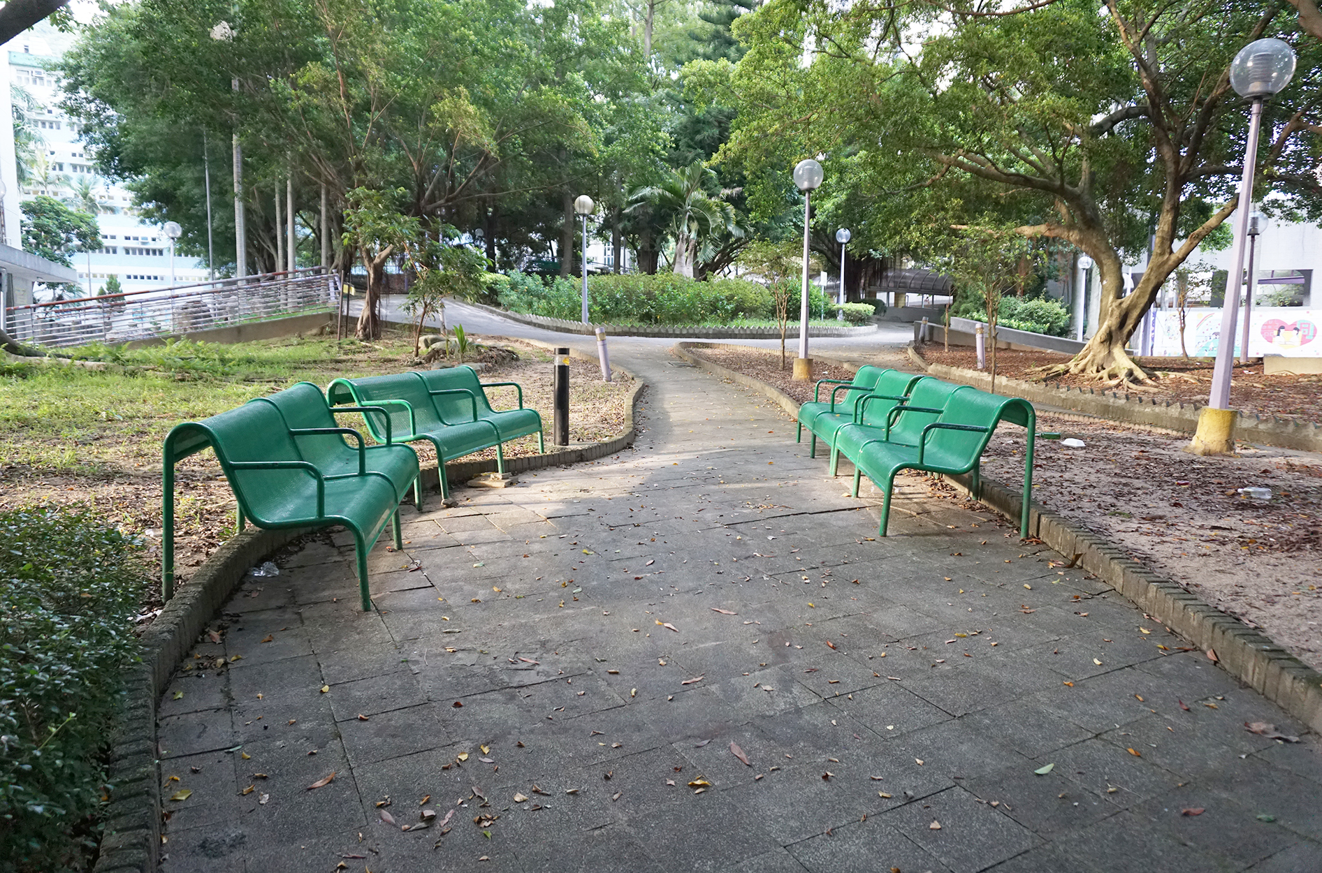 Fu Heng Estate in Tai Po, Hong Kong.